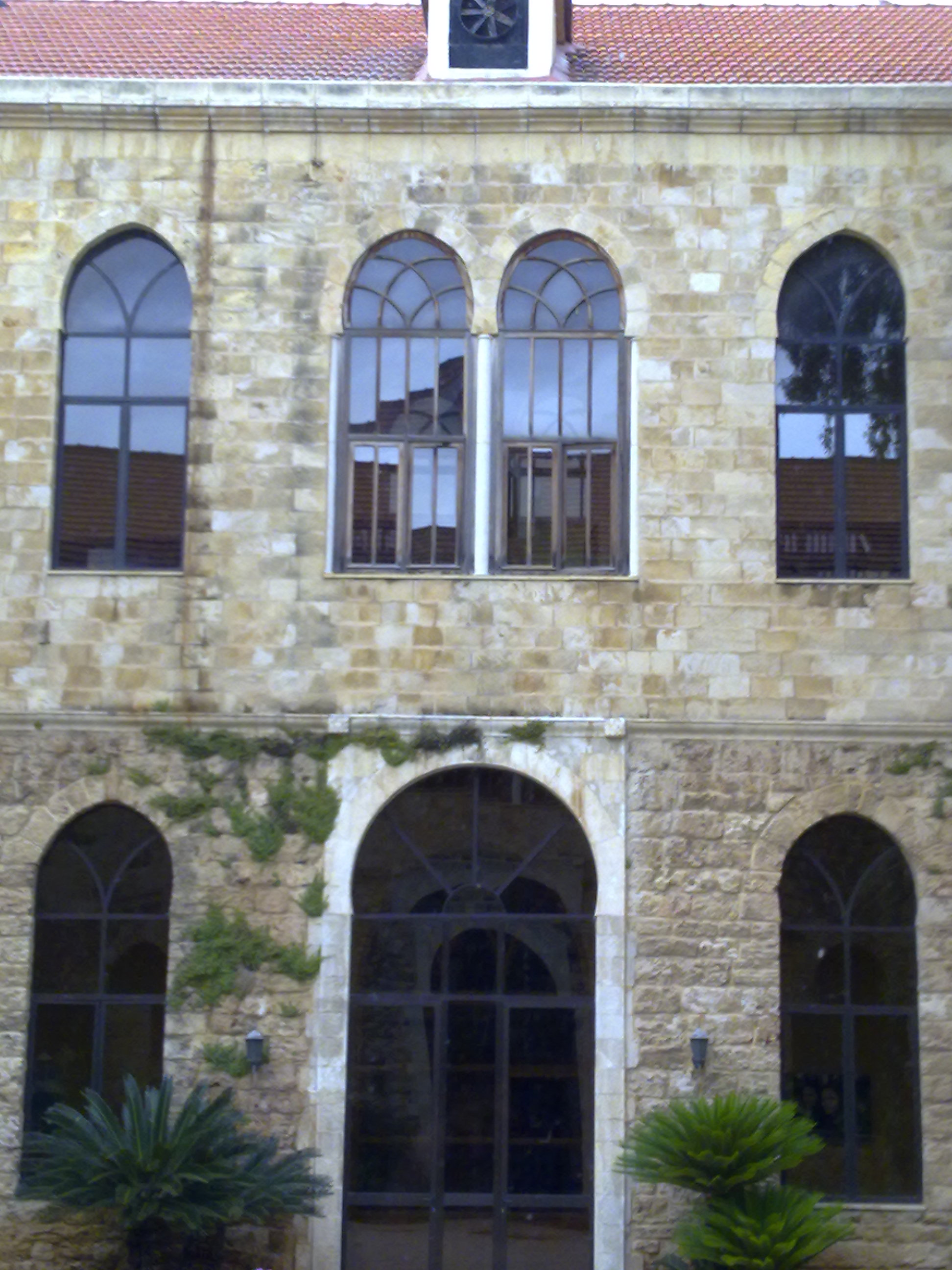 An inner courtyard view of the Lebanese Council for Development and Reconstruction building in Beirut, Lebanon.